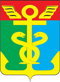 Nakhodka (Primorsky kray), coat of atms